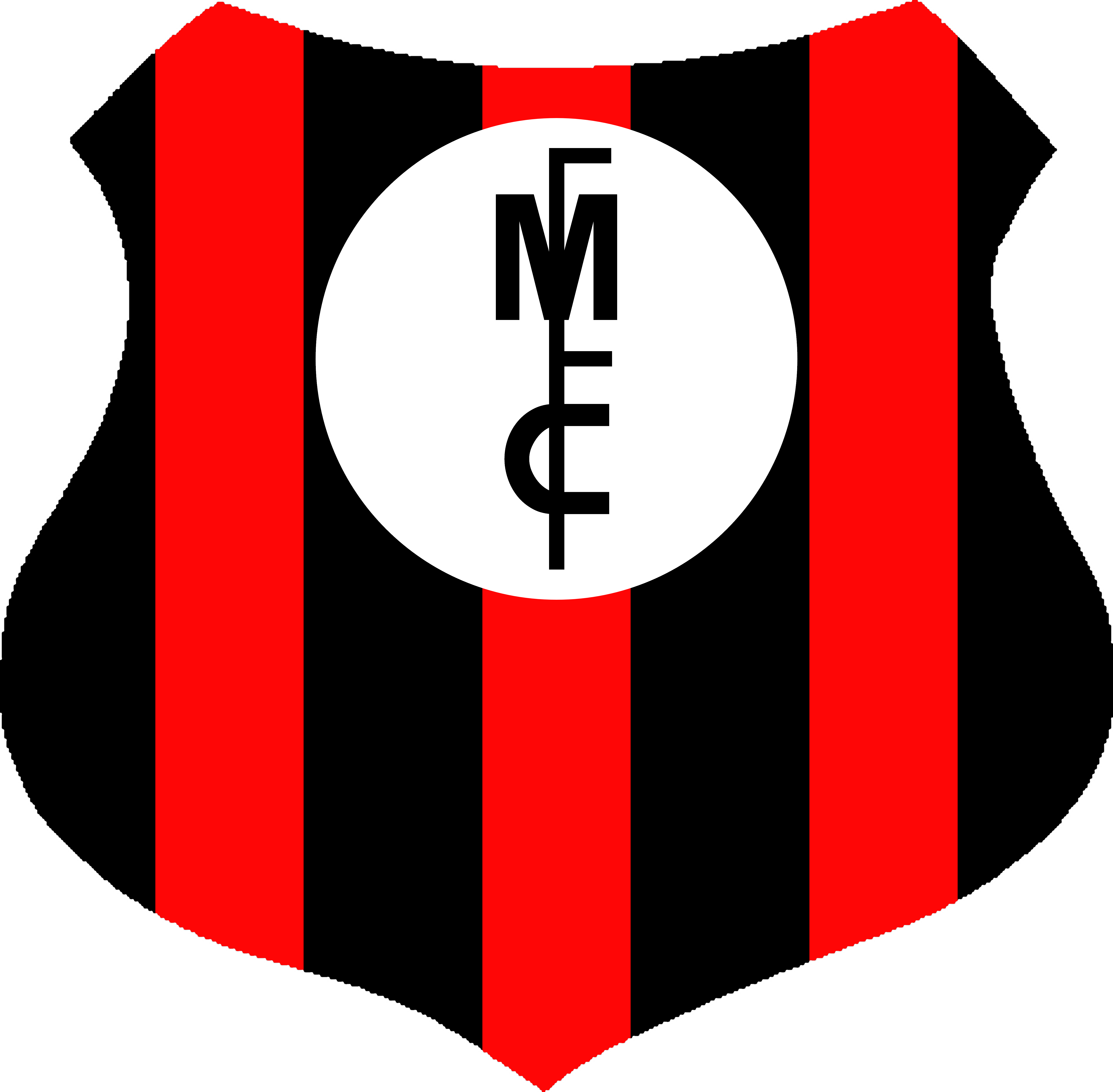 Escudo del Misiones Football Club